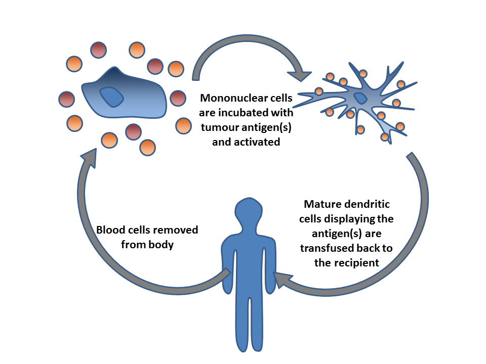 Osteoarthritis of the Knee Clearwater, Tampa, St Petersburg, Florida Knee arthritis, also referred to as osteoarthritis, is the wear and tear arthritis from degenerative joint disease – wearing and destroying the joint’s cartilage. It particularly occurs in patients who are over 50 years of age, but can occur earlier, especially with previous sports or traumatic injuries. Being overweight tends to exacerbate the symptoms of arthritis and weight loss can help with this Osteoarthritis of the Knee. There also appears to be a genetic predisposition, and arthritis and knee pain tend to run in families. Previous trauma, such as meniscal tears, ligament damage or prior fractures, all predisposed to having knee arthritis and chronic knee pain. Symptoms of Arthritis of the Knee Common symptoms of osteoarthritis in the knee joint are: Pain with all activity, Stiffness or swelling of the joint, Loss of weight bearing capacity, Loss of motion of the knee Often times, the knee may feel like it is going to give out and falling does occur.In dendritic cell therapy blood cells are removed from the body. The blood mononuclear cells are incubated with a tumour antigen or tumour cell lysates that contain many tumour antigens. The cells are also activated by use of immuno-stimulatory molecules. This process produces mature antigen-loaded dendritic cells that are returned to the original donor. The dendritic cells induce immune response to the tumour.